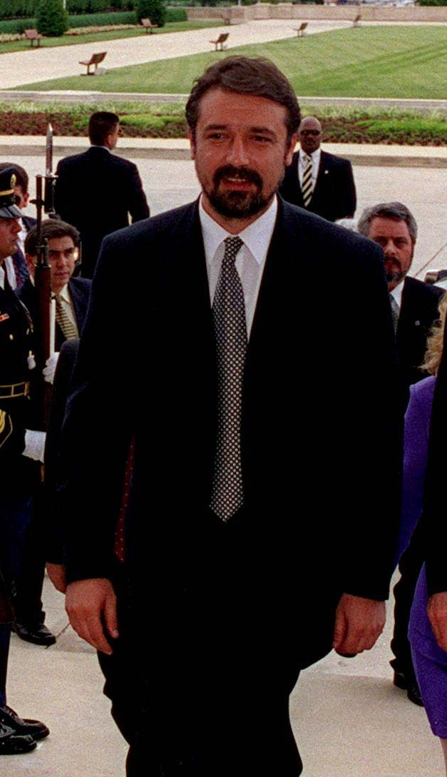 Branko Crvenkovski, then prime minister of the Republic of Macedonia (President since 2004), during a visit to the Pentagon on June 30, 1998.